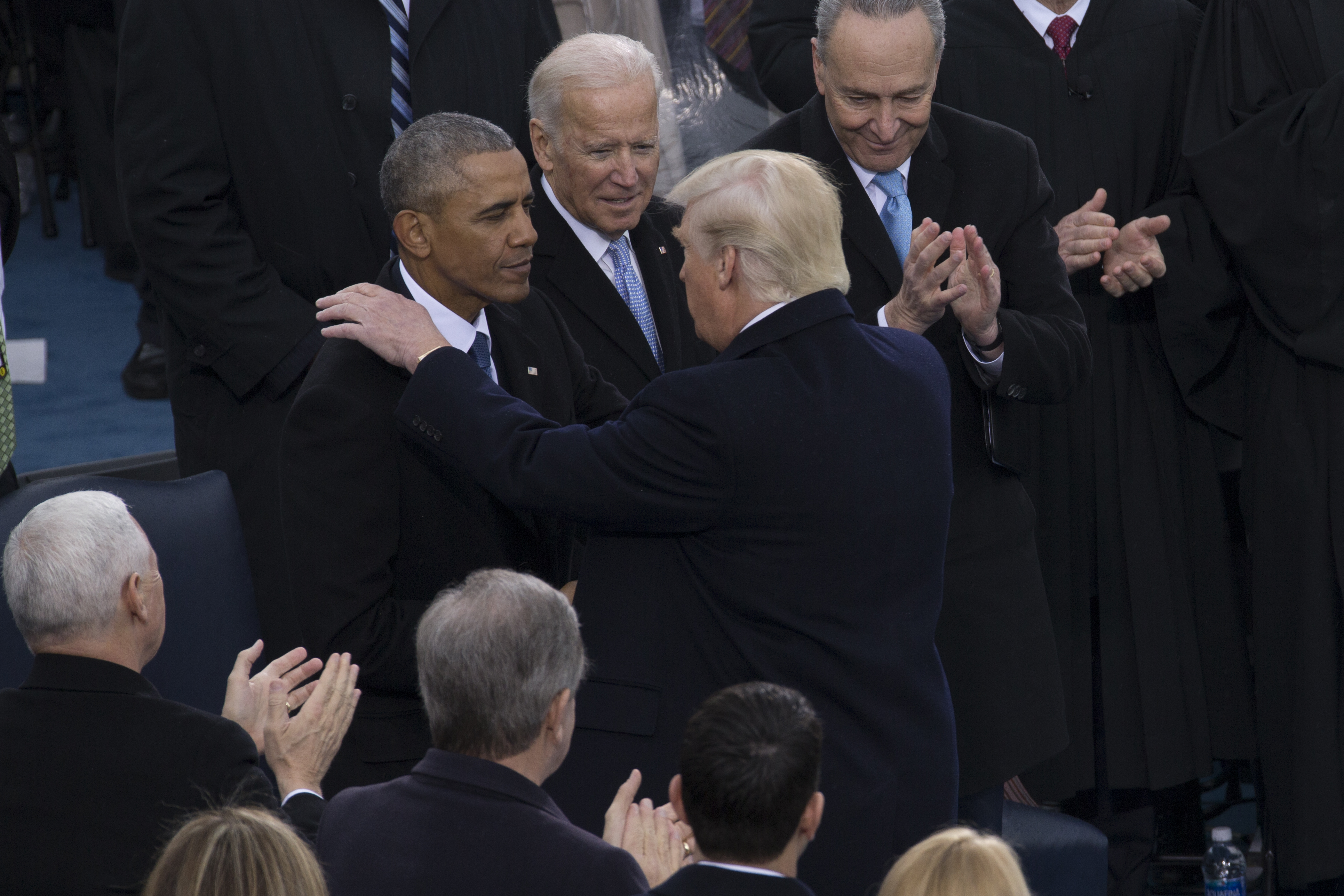 President Donald J. Trump shakes hands with the 44th President of the United States, Barack H. Obama during the 58th Presidential Inauguration at the U.S. Capitol Building, Washington, D.C., Jan. 20, 2017. More than 5,000 military members from across all branches of the armed forces of the United States, including Reserve and National Guard components, provided ceremonial support and Defense Support of Civil Authorities during the inaugural period. (DoD photo by U.S. Marine Corps Lance Cpl. Cristian L. Ricardo) Unit: Joint Task Force - National Capital Region 58th Presidential Inauguration DVIDS Tags: POTUS; JTF-NCR; Inauguration2017; Donald J. Trump; President of the United States, Barack H. Obama